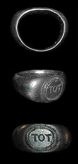 Romano-British silver ring inscribed "TOT", believed to be dedicated to the Celtic god Toutatis. Provenance unknown, but possibly from Lincolnshire where many such rings have been found. Portable Aniquities Scheme LIN-B34626